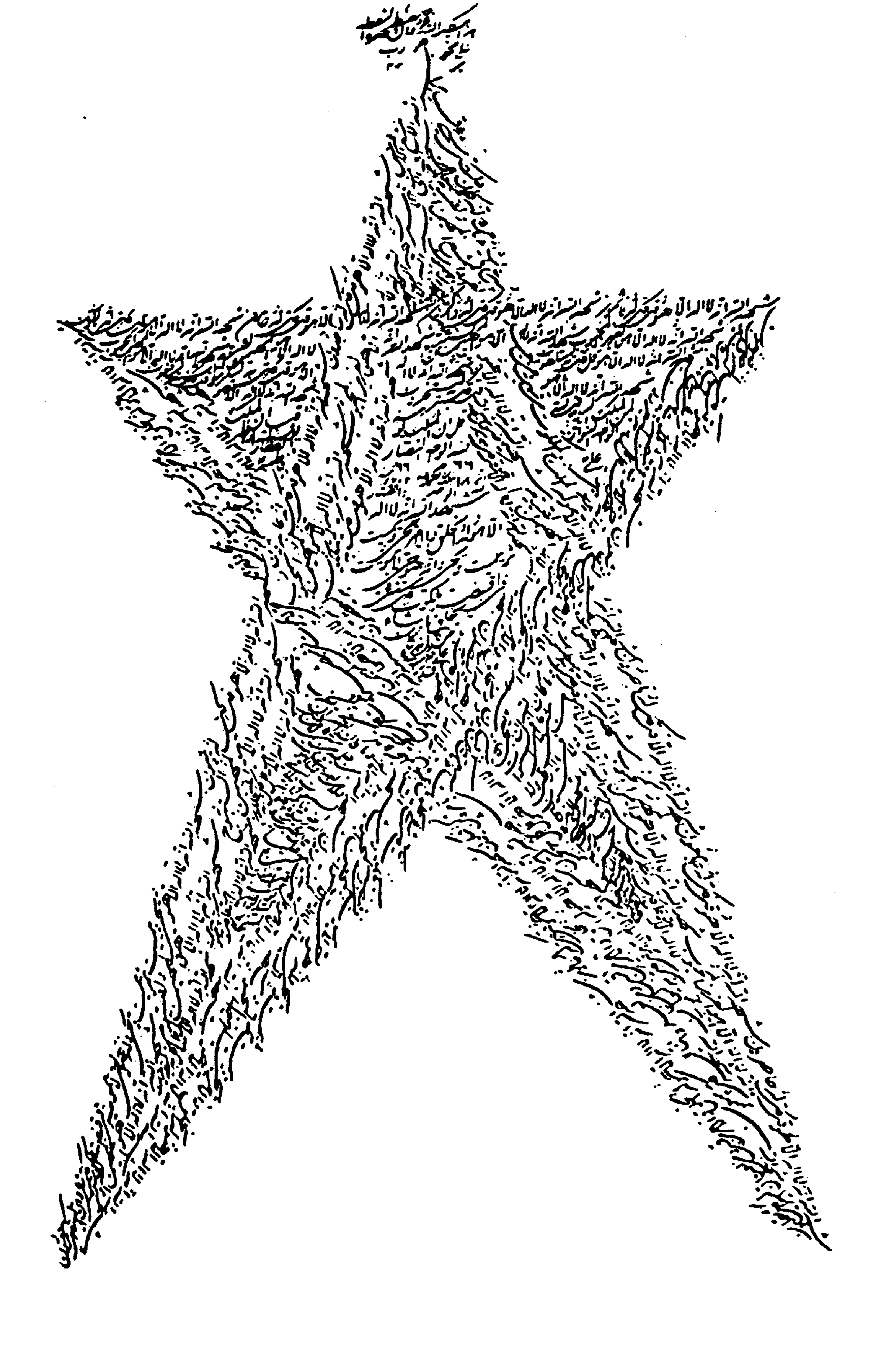 Facsimile: Some words, written in the form of a pentacle, by Siyyid Ali-Muhammad-i-Shirazi, also known as the Báb. Báb claimed these are verses from God. Also known as "Haykal-e-Bab" (in Persian: هيكل باب).